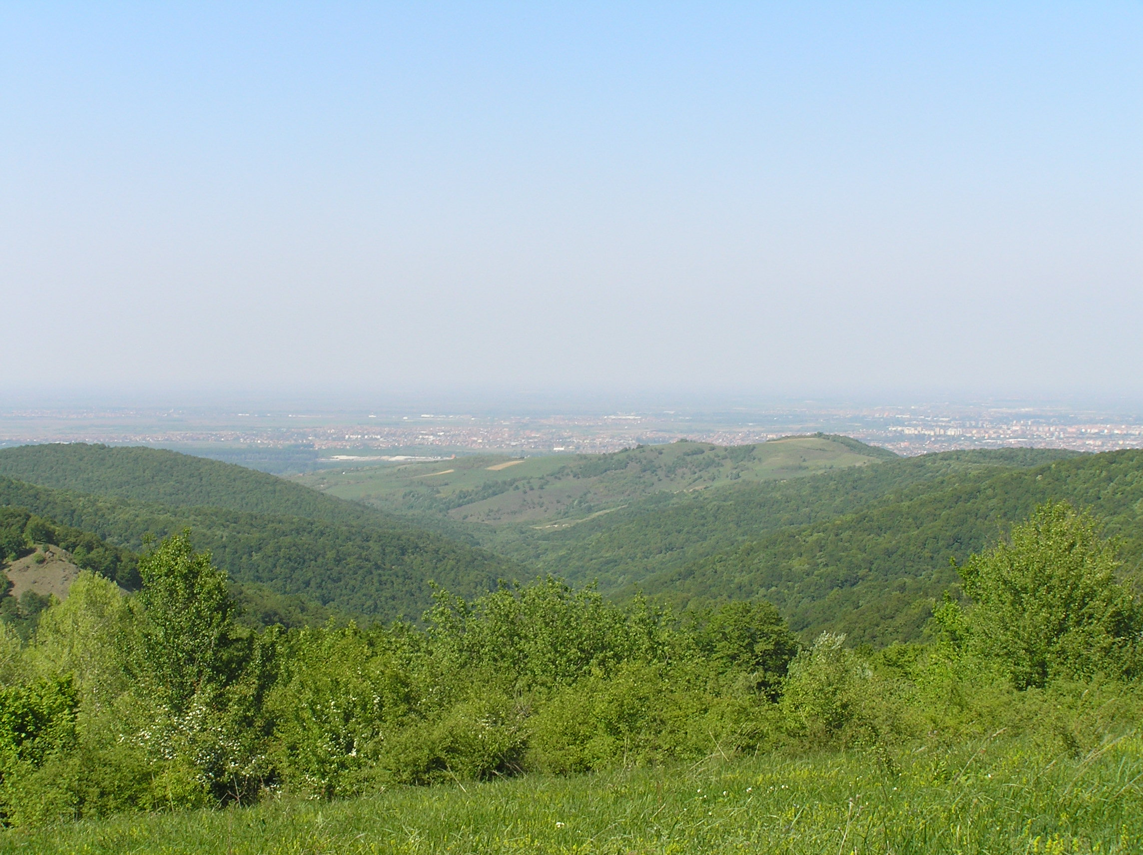 Fruška Gora (Serbian Cyrillic: Фрушка гора) is a mountain in north Srem. Most of it is in Syrmia, Serbia, but a small part on its western side overlaps into Croatia. Sometimes it is also referred to as jewel of Serbia due to its beautiful landscape protection area, nature and its picturesque countryside. Ово је фотографија заштићеног природног добра у Србији под шифром: НП01This is a a photo of a natural area in Serbia with ID: НП01